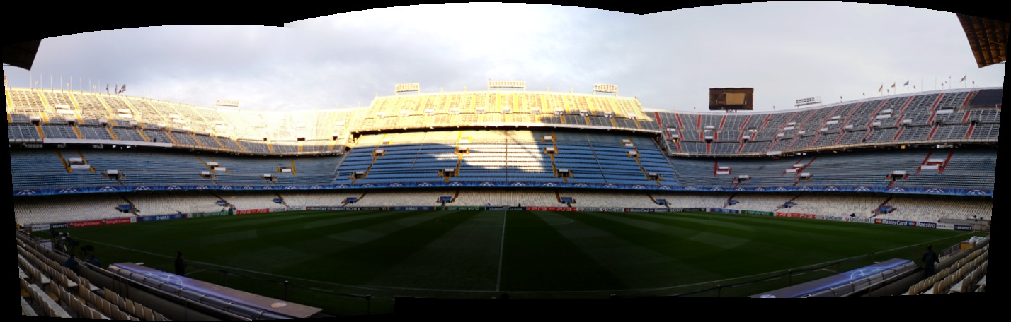 Mestalla panoramic picture